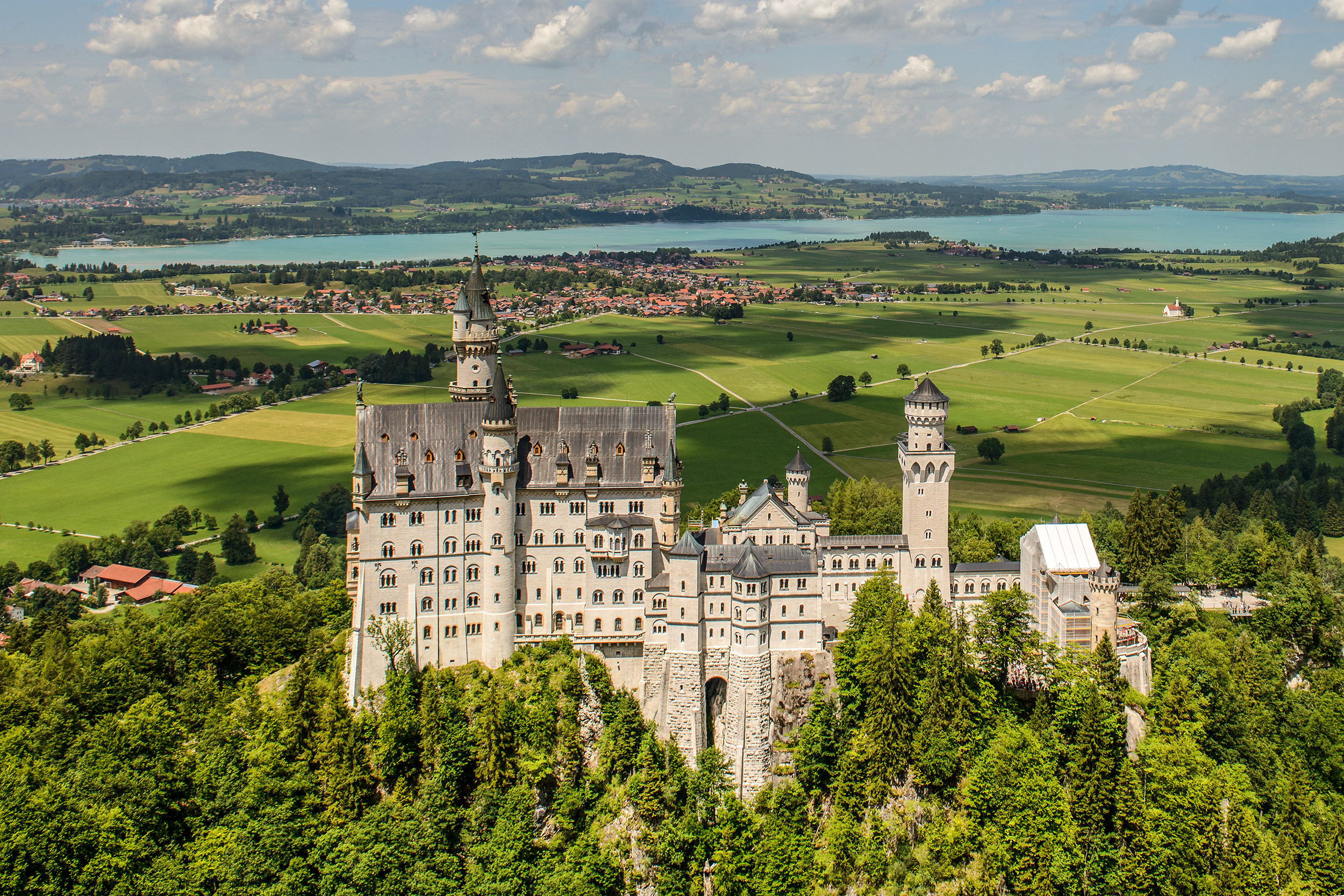 This is a photograph of an architectural monument.